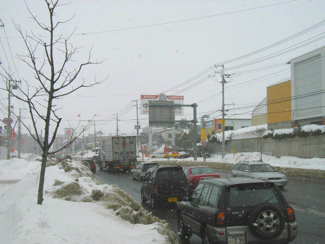 National Route 12 of Japan. Sapporo, Hokkaidō prefecture, Japan.